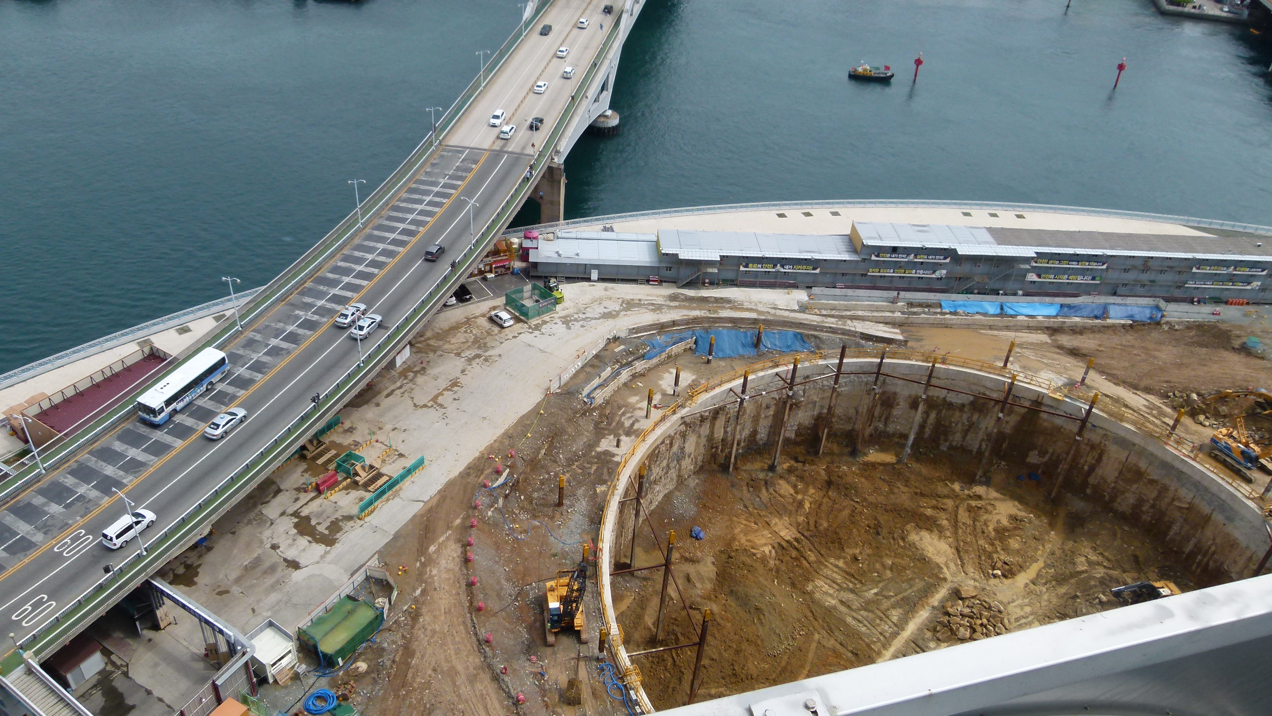 Construction site of Busan Lotte Tower